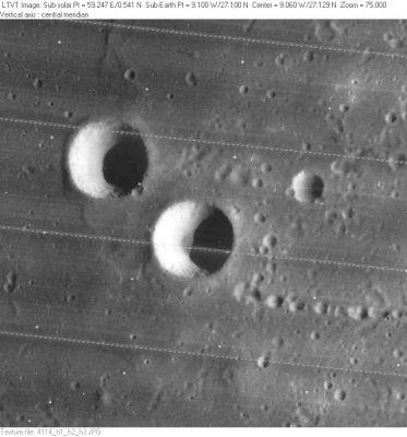 Lunar Orbiter IV-114H: Beer is at image center with the similarly-sized Feuillée to its upper left. The small crater to the upper right of Beer is Beer A.